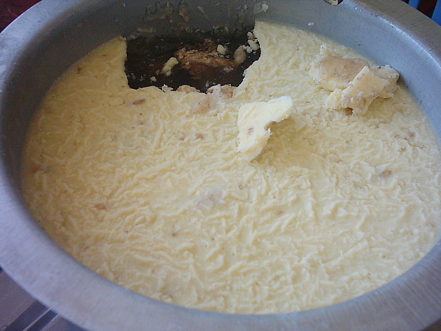 Meat Soup we've made yesterday. We frozed it up so we could scoop the oily fa. Before reheating it so we can eat it finally